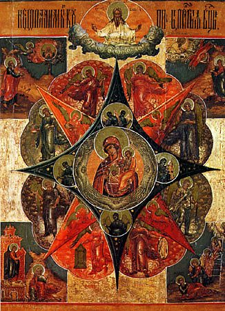 Russian icon of Virgin Mary "Neopalimaya Kupina" that means "Burning Bush"